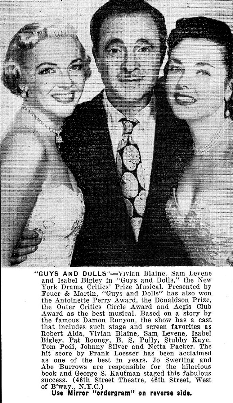 Viviane Blaine Sam Levene Isabel Bigley in the Original Broadway Production of Guys and Dolls